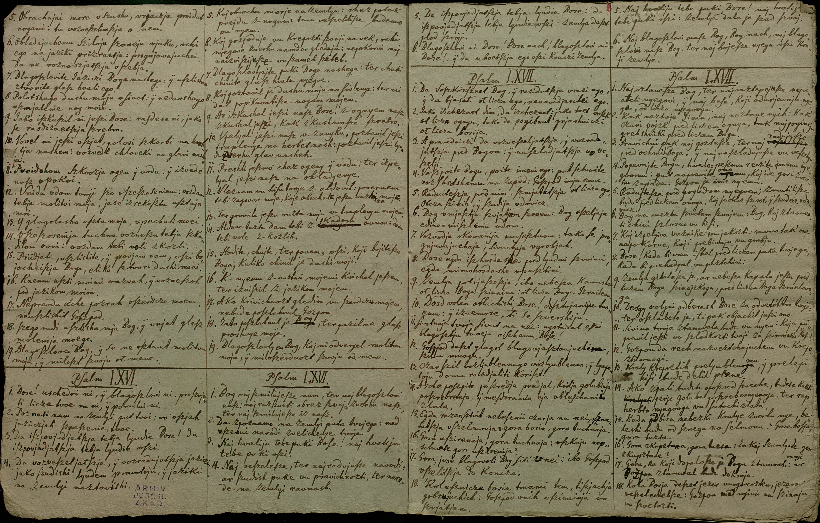 Handwritten Psalms in Kajkavian Croatian language from the 19th century, by Ignac Kristijanović